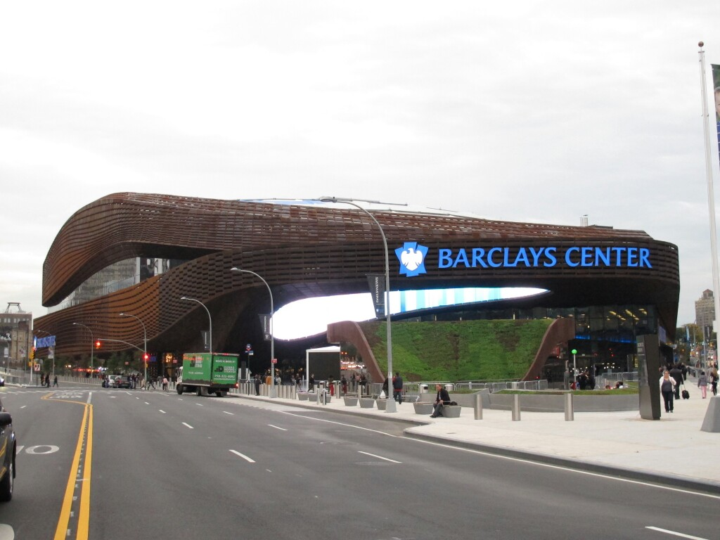 Barclays Center in Brooklyn, New York, taken from the corner of Atlantic Avenue and Flatbush Avenue.